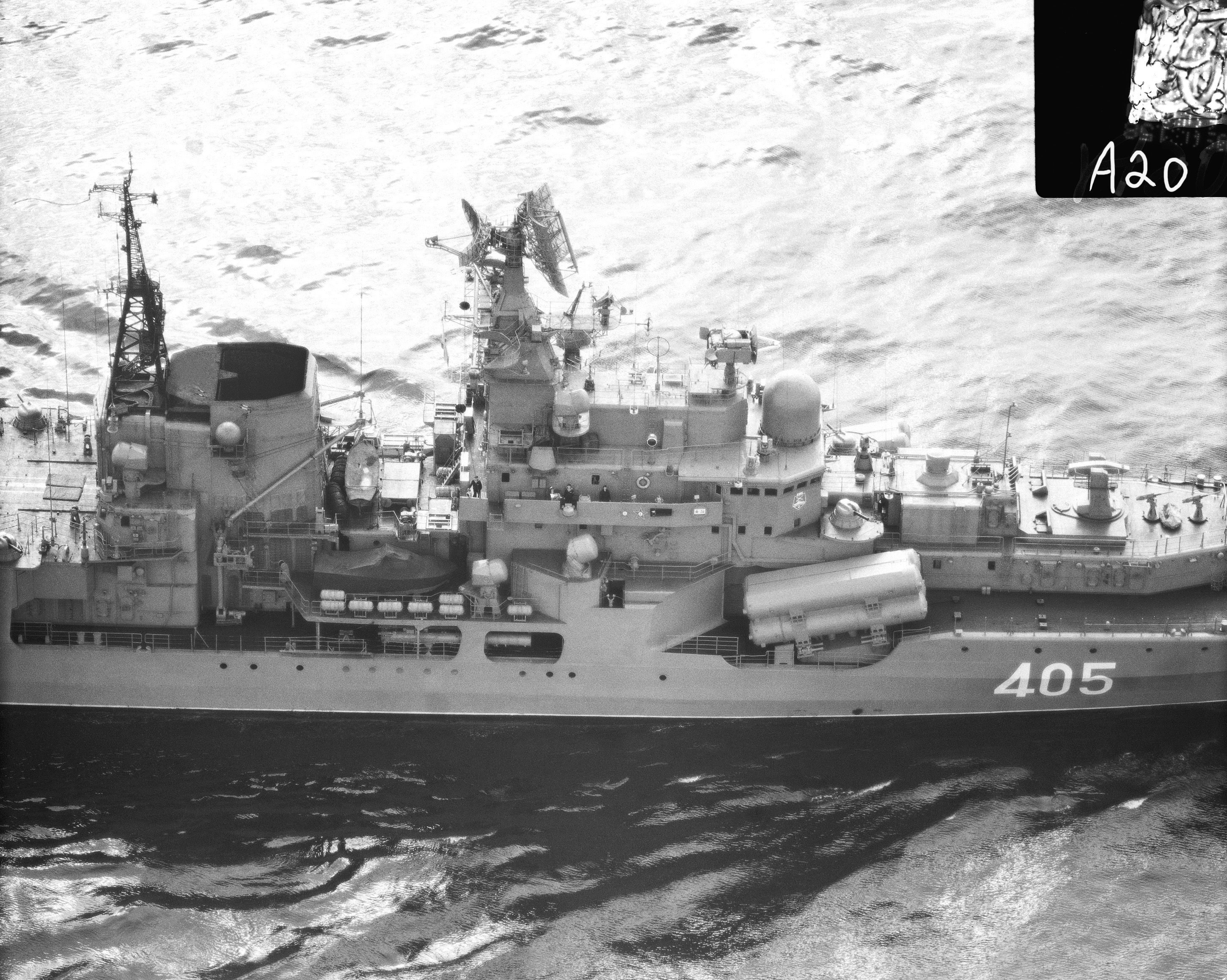 A starboard view of the forward half of the Soviet Project 956 "Sarych"(Sovremenny class) destroyer Otchyannyy (405).